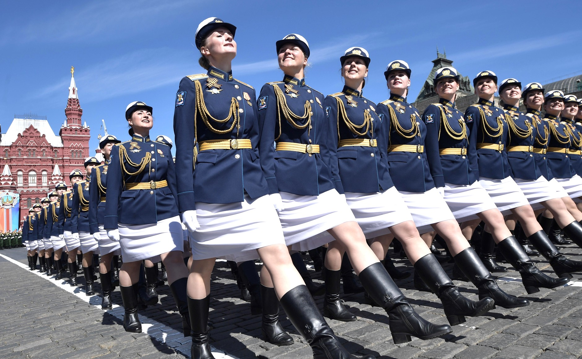 2018 Moscow Victory Day Parade